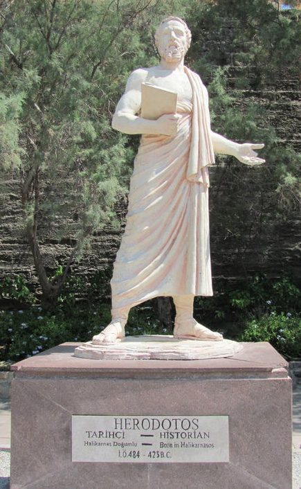 Herodotus_from_Bodrum